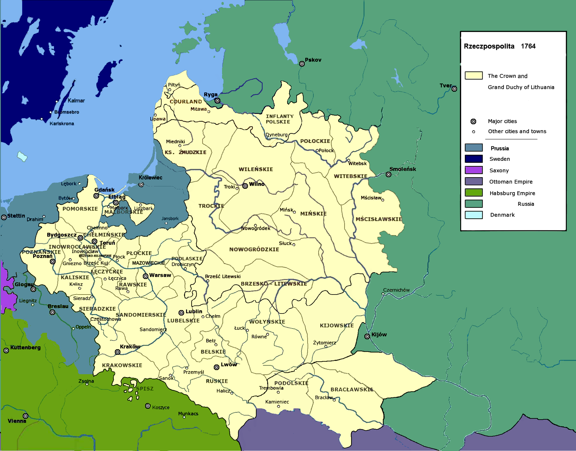 Polish-Lithuanian Commonwealth in 1764